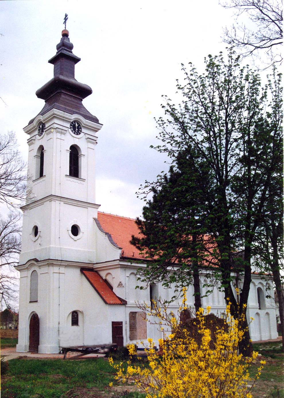 Serbian Orthodox Church of Saint Nicholas in Jaša Tomić, Sečanj